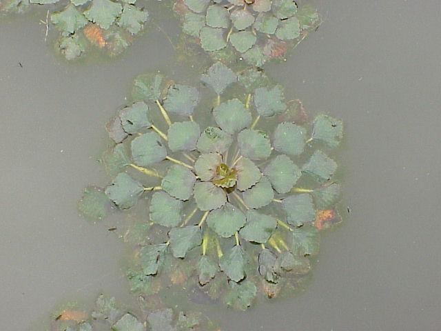 Species: Trapa natans Family: Trapaceae Image No. 1